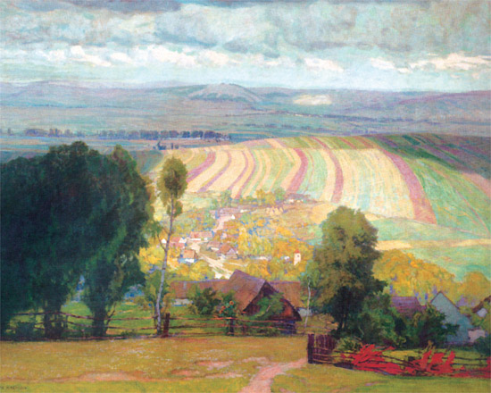 Moravian Slovakia—View to hill with chapel of Anthony of Padua by Czech painter Alois Kalvoda, oil on canvas, 16 × 20.5 cm